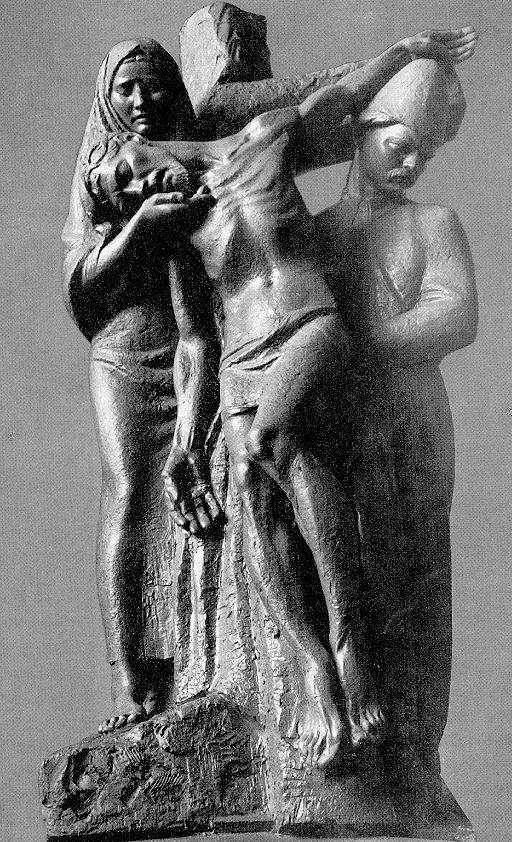 Hungarian calvary (Budapest, Farkasret Cemetery)